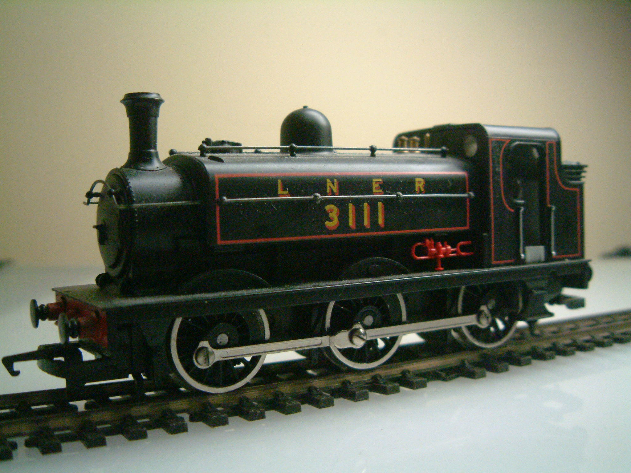 A full sized locomotive similar to this one was the first British Railways steam locomotive to be sold intact to a private owner. It may be seen today at York railway museum. . . If it has not gone visiting!